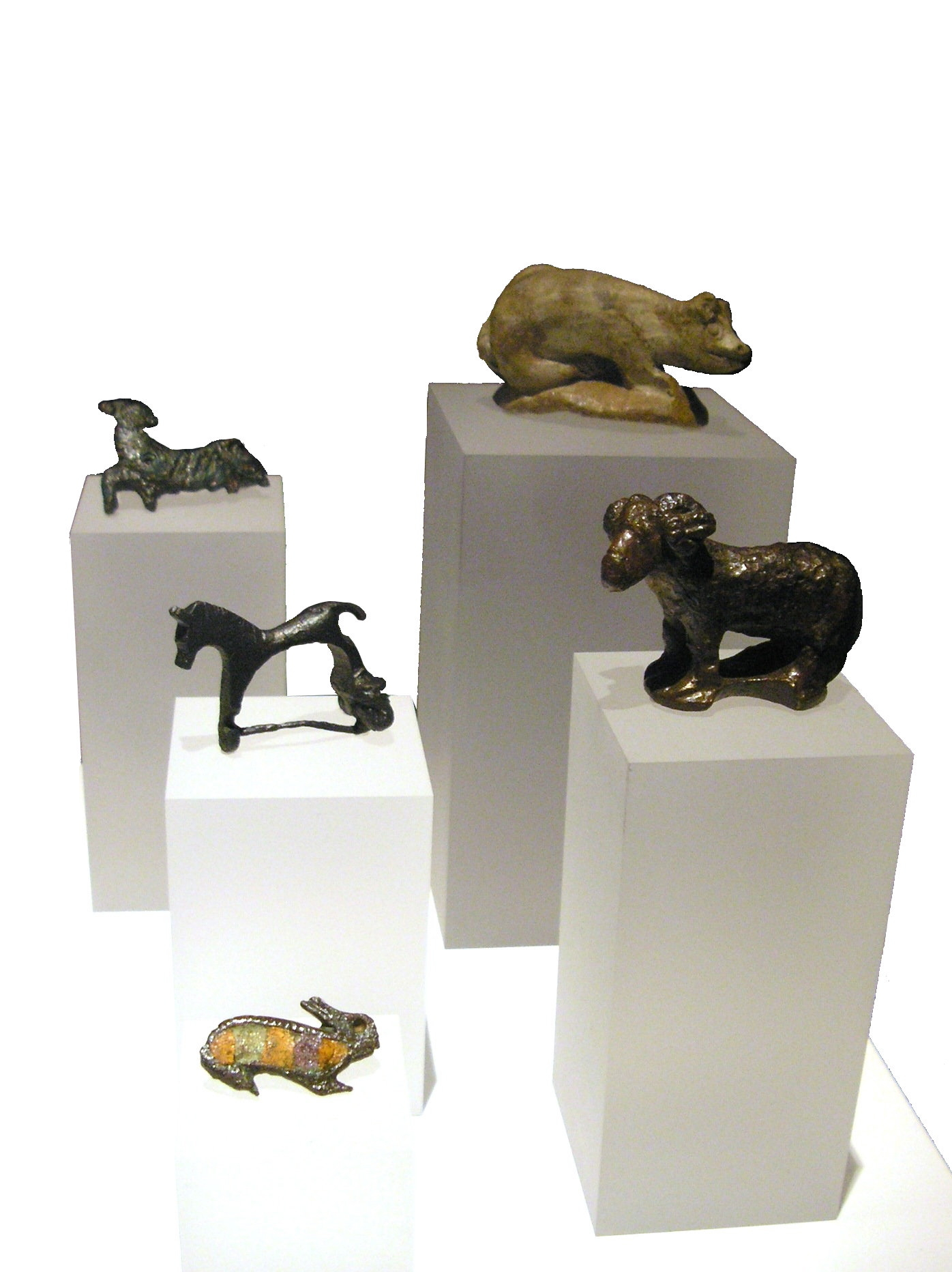 Figure of a ram, toy, 2nd/3rd century A.D.. Hare shaped brooch, 2nd/3rd century A.D.